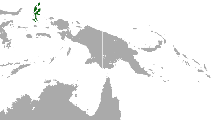 Ornate Cuscus (Phalanger ornatus) range